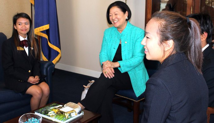 I was very impressed by Hawaii students representing @NationalHOSA. Good luck on all your future plans!